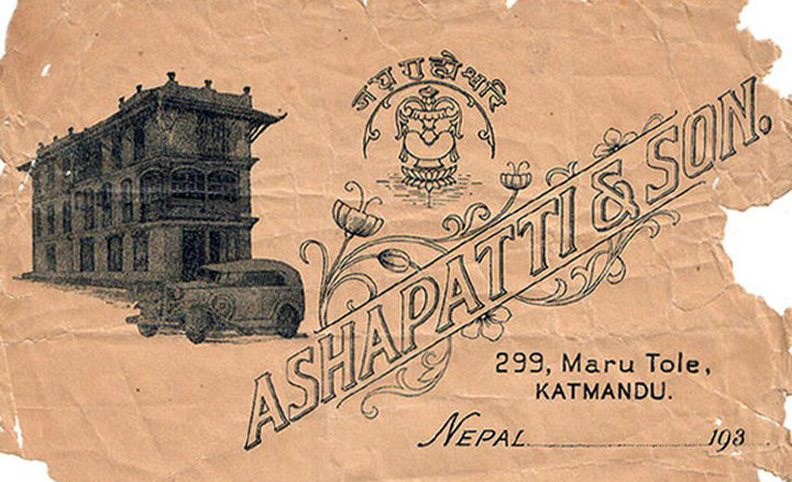 Scan of the letterhead of the firm Ashapatti & Son of Nepal in the 1930s.